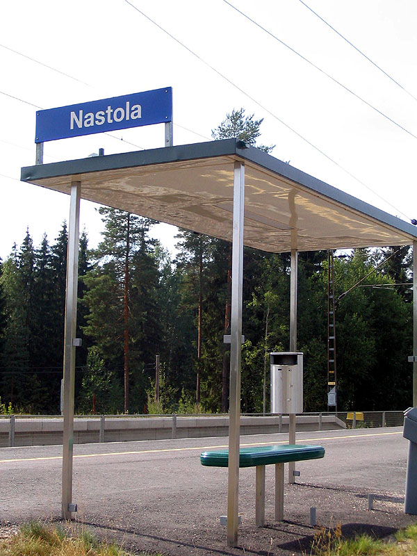 Nastola railway station in Nastola, Finland